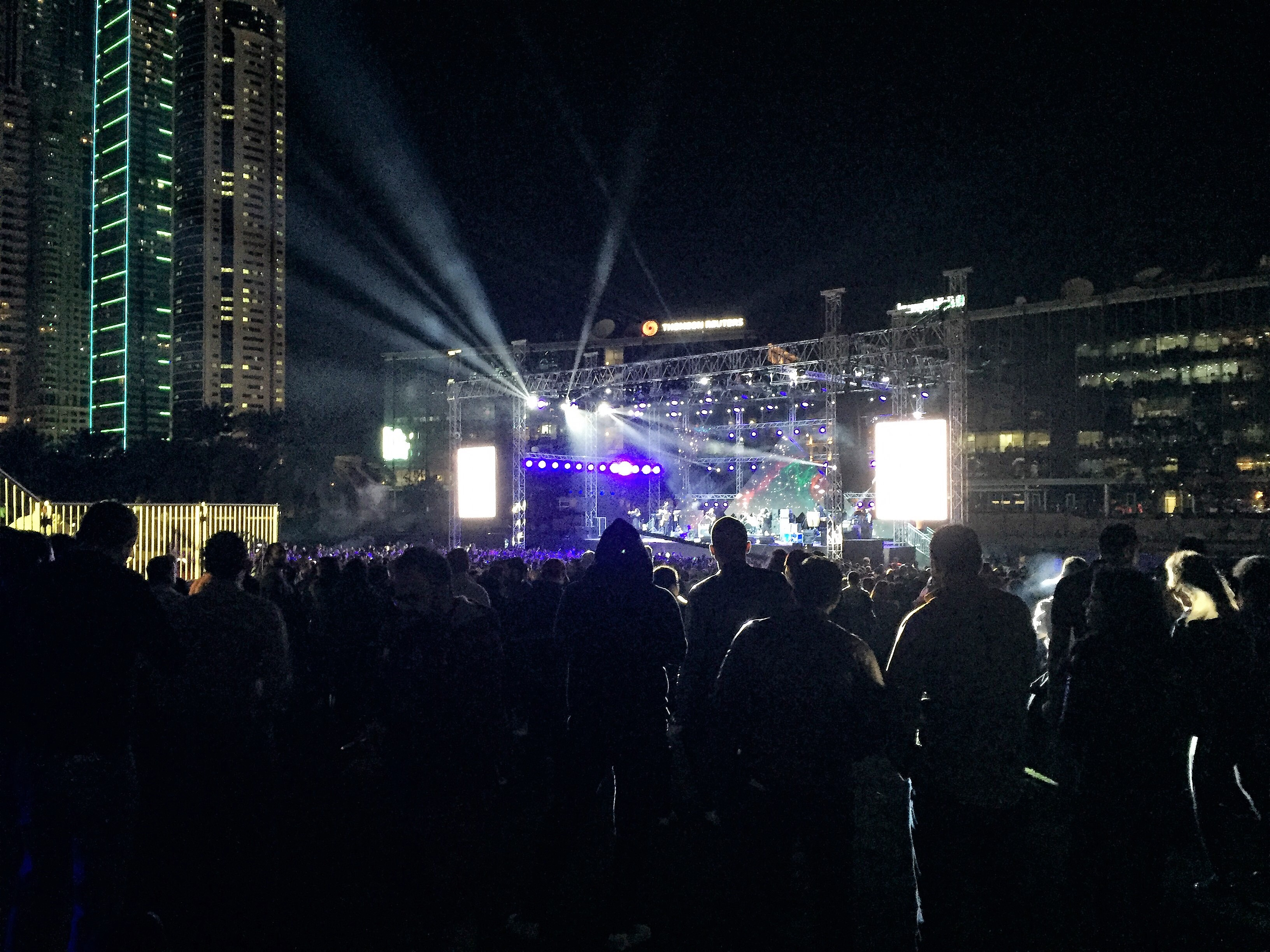 Live performance of popular Egyptian bands in Dubai Media City Amphitheater